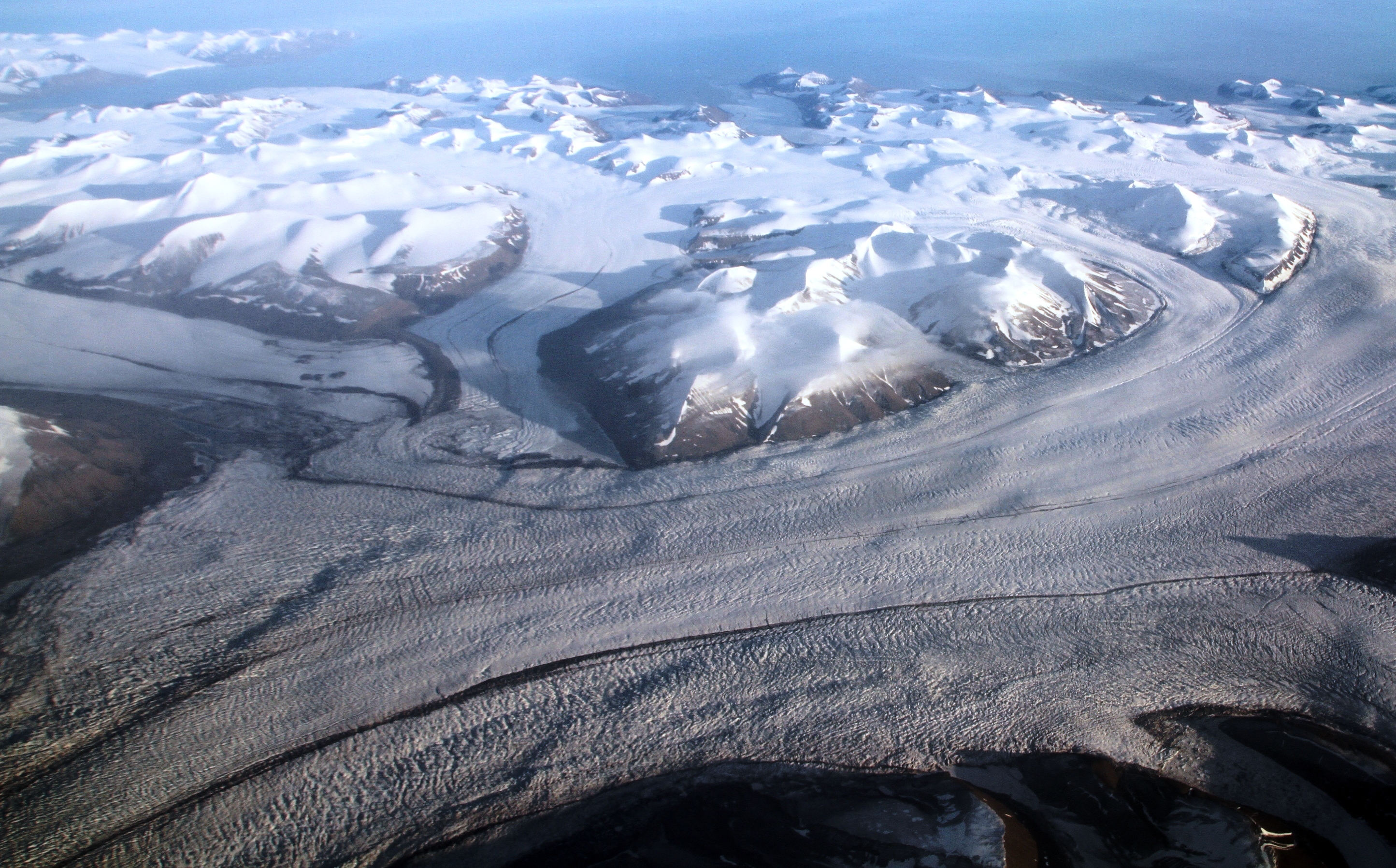 Aerial view of the inner part of Van Keulenfjorden, with Nathorstbreen glacier sliding down into the fjord. Nathorst land and Torell Land, Spitsbergen